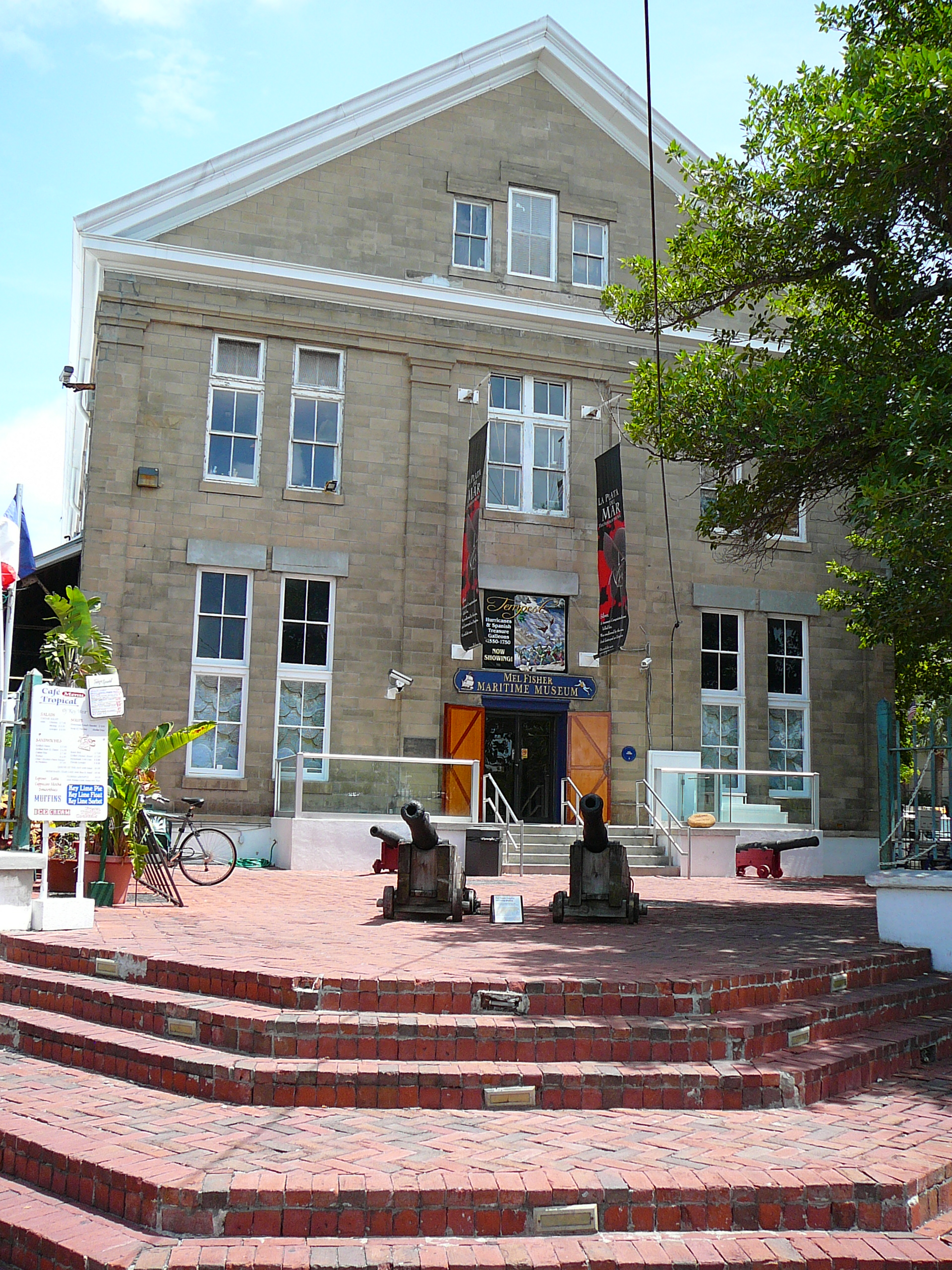 Digital photo taken by Marc Averette. The Mel Fisher Maritime Heritage Museum in downtown Key West, Florida